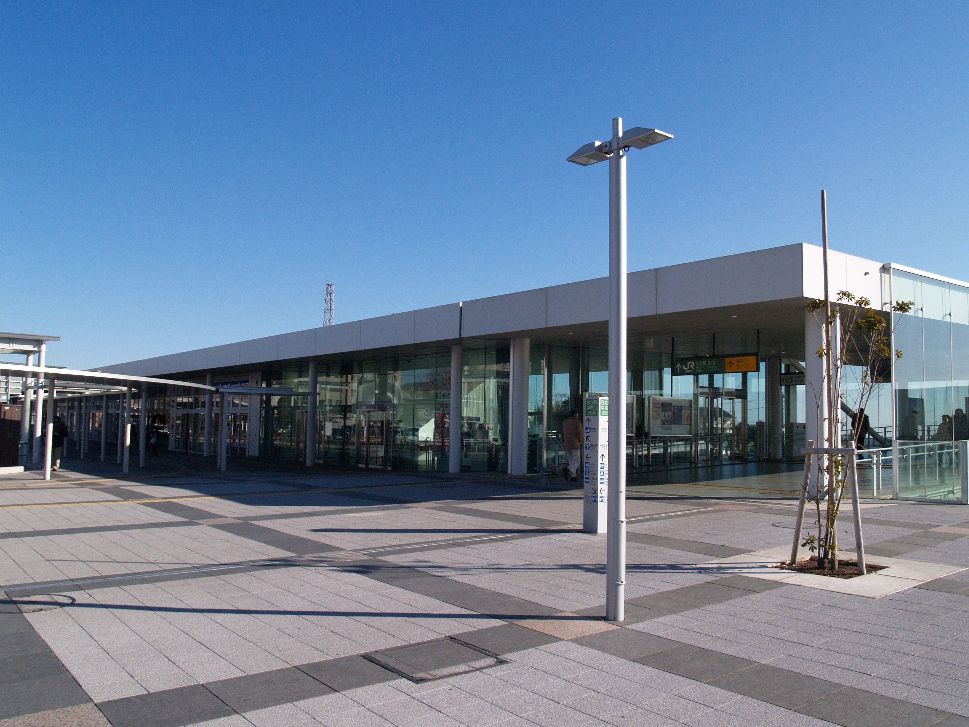 Hitachi Station